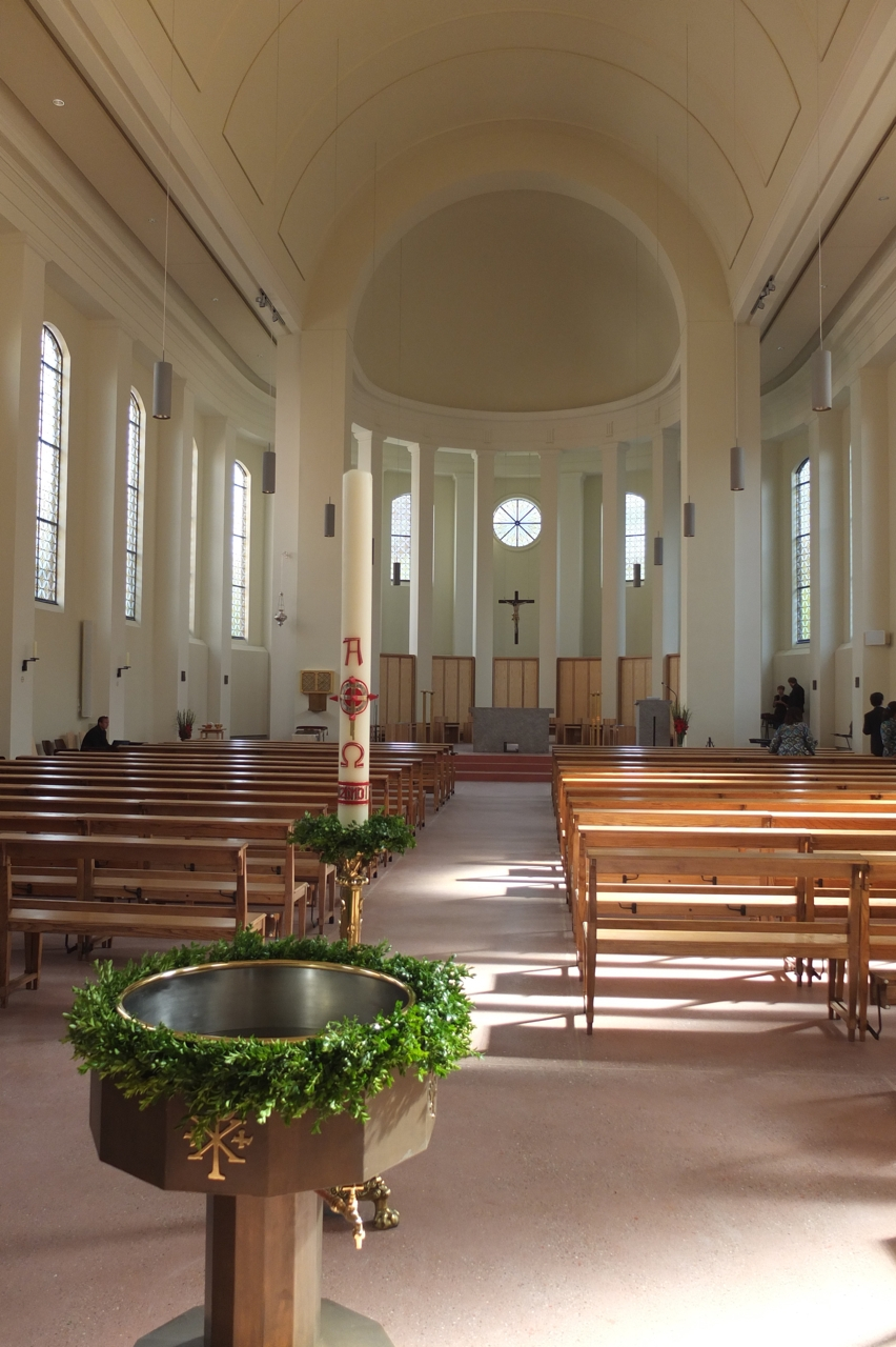 This is a photograph of an architectural monument.